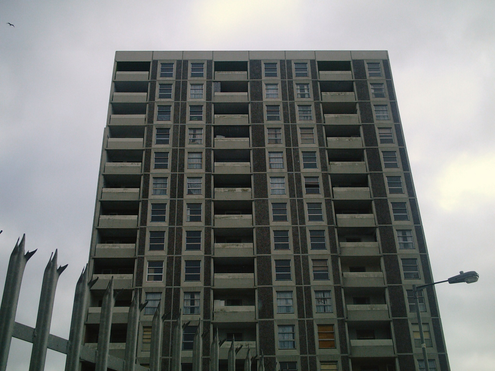 Clarke Tower In Ballymun.